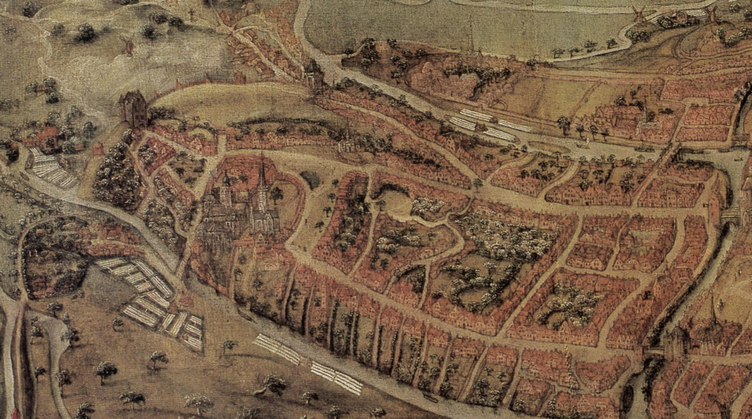 Sint-Pietersdorp, Gent, 1534.jpg